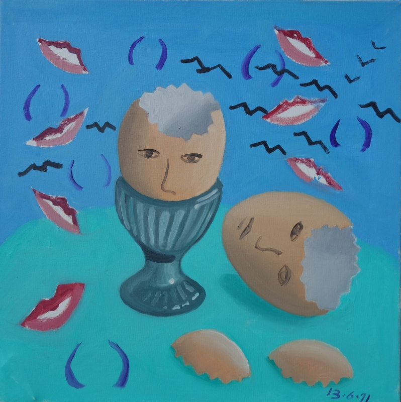 The thirteenth Self Portrait in Bryan Charnley's Self Portrait Series. Oil on Canvas 51 x 51 cms, Painted 13 June 1991